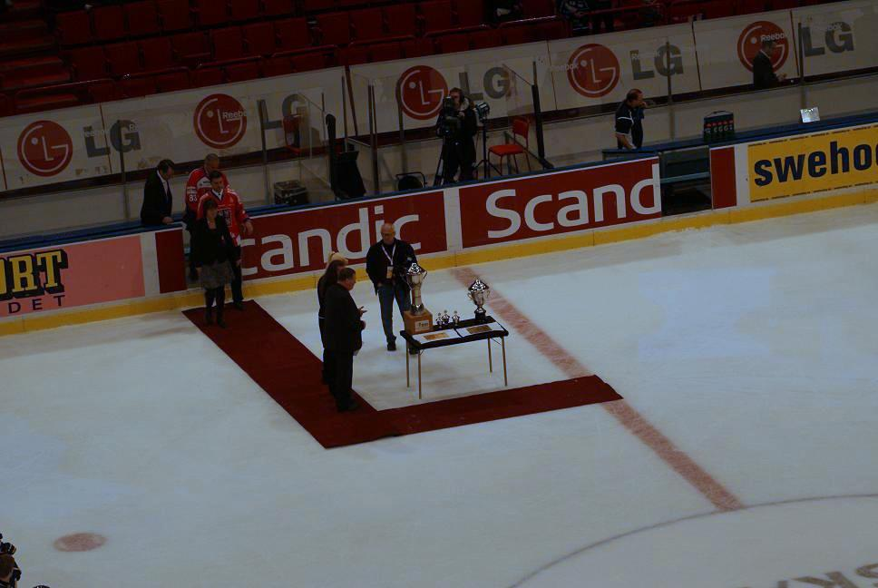 Trophies of the Euro Hockey Tour 2010.